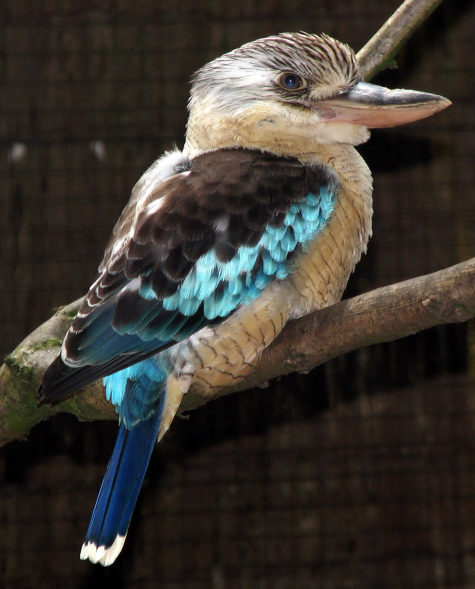 A male Blue-winged Kookabura at the Cotswold Wildlife Park, Oxfordshire, England.